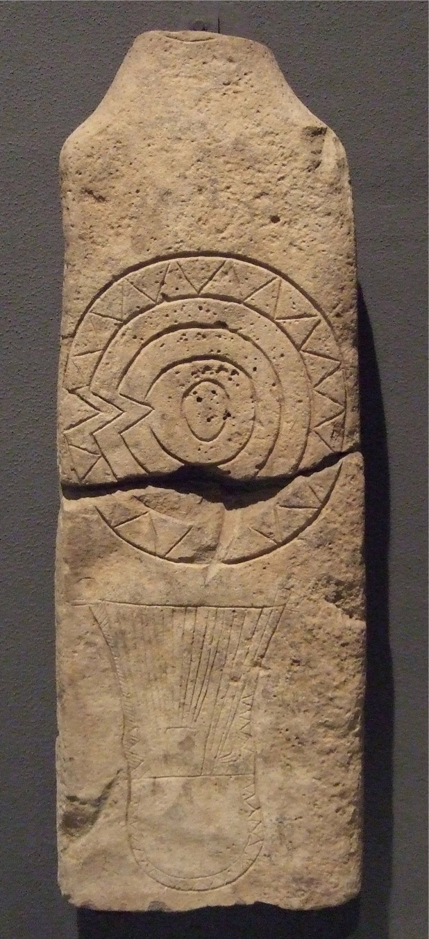 Funerary stela of Valpalmas, Tiña del Royo, Luna, Zaragoza (1250 to 750 AC). Sandstone.